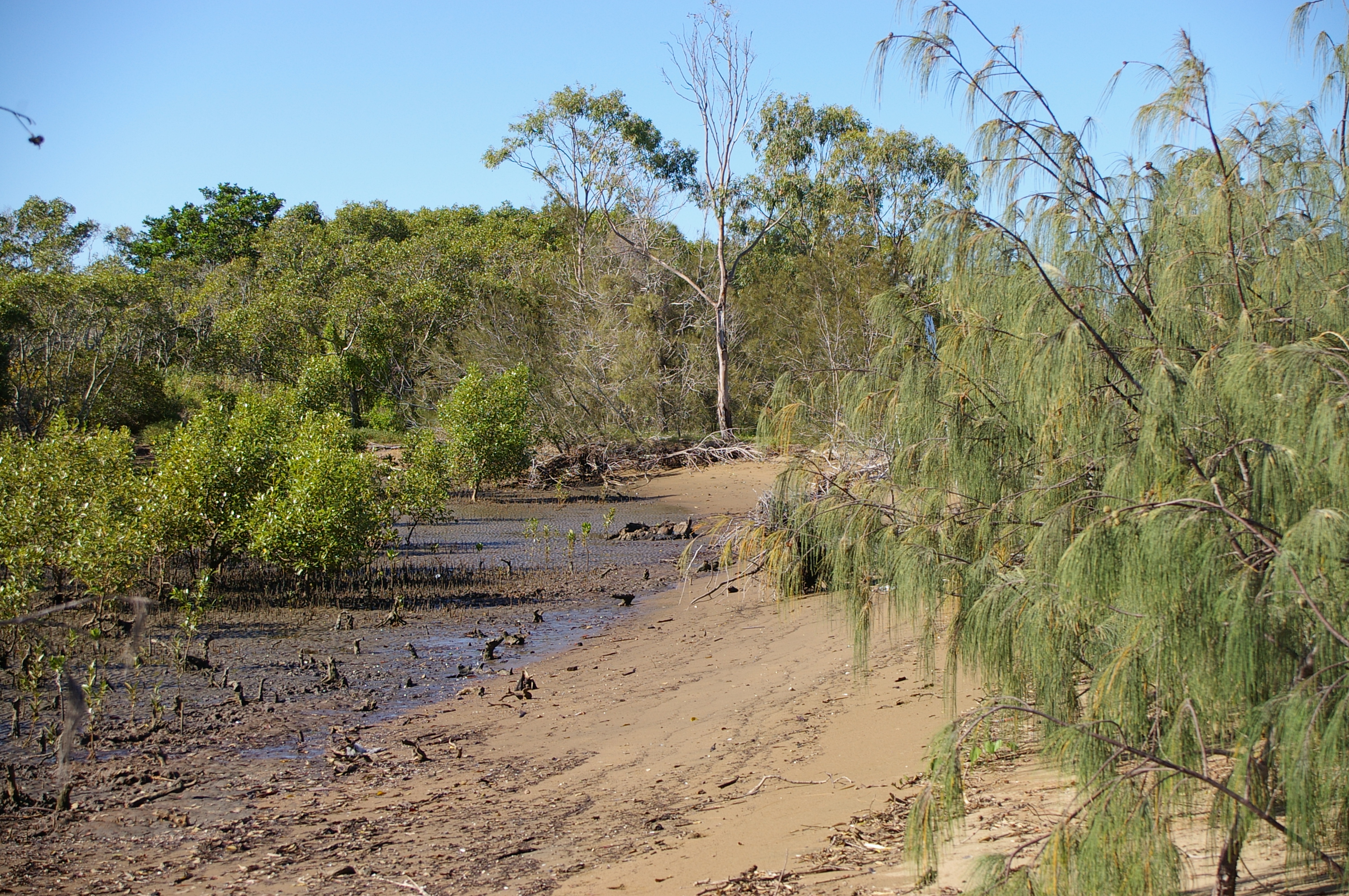 Low dunes separate the Avicennia marina dominated seaward mangroves from the salt marshes and marine couch meadows behind the dunes. Much of this habitat is lost along the shores of Bramble Bay to urban development.